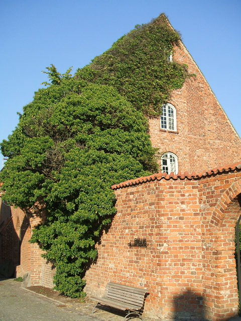 Stralsund, Germany, Johanniskloster